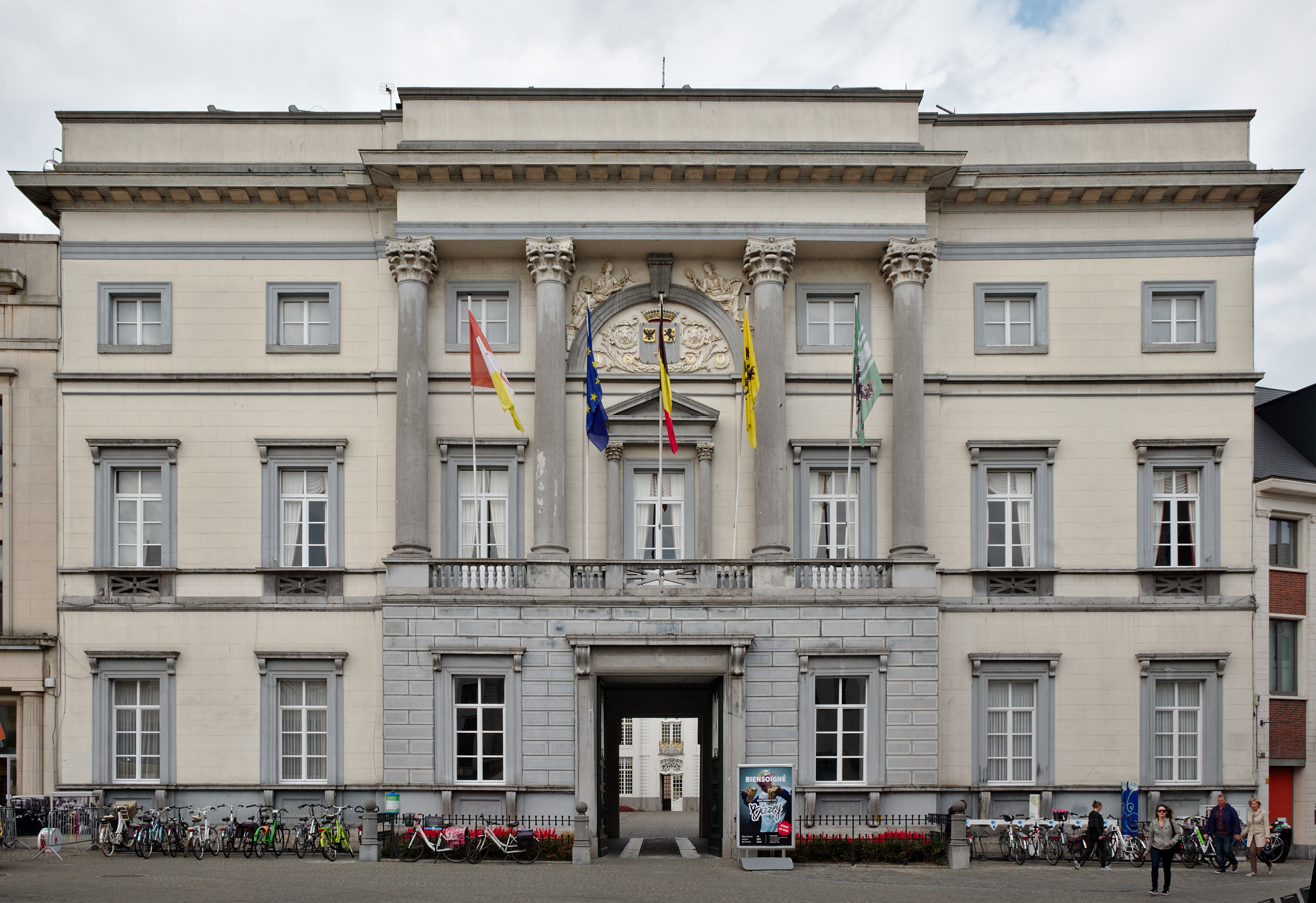 Town hall of Aalst This photo of immovable heritage has been taken in the Flemish Region